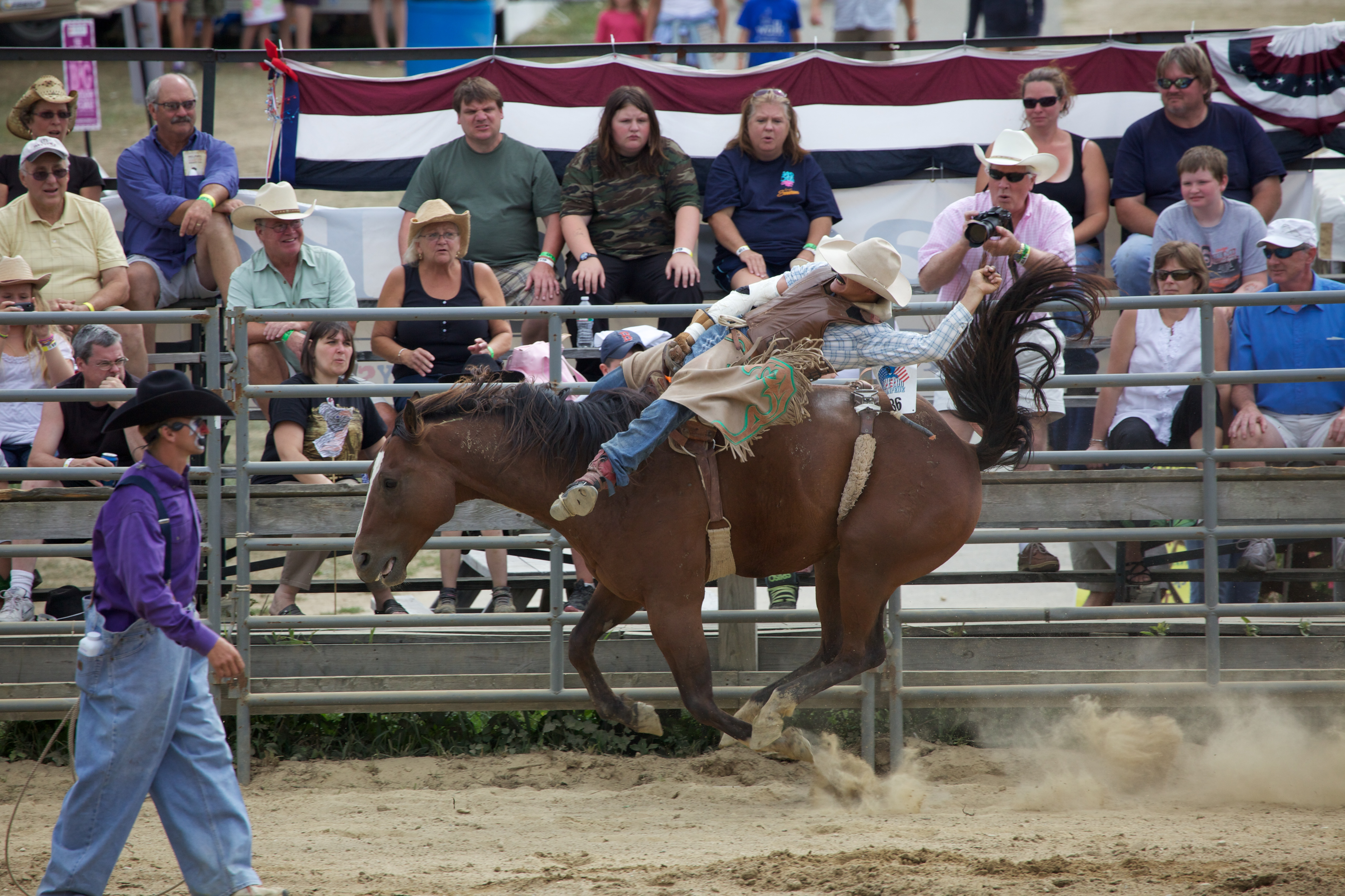 Cape Cod Stampede 2010